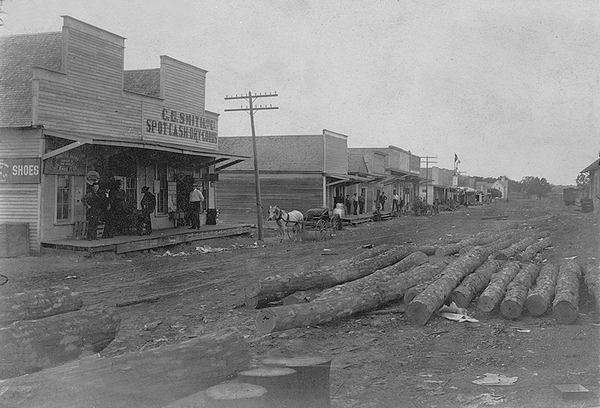 Title: Conway, Tex. Creator: Unknown Date: ca. 1909 Part of: George W. Cook Dallas/Texas image collection Series: Series 3: Photographs Series 3, Subseries 3, Postcards Series 3, Subseries 3d, RPPC, Texas Place: Conway, Carson County, Texas Description: This real photographic postcard shows a general store and other buildings along a railroad track in Conway, Texas. Physical Description: 1 photographic print (postcard): gelatin silver; 9 x 14 cm File: a2014_0020_3_3_d_0420_c_conwaytracks.jpg Rights: Please cite DeGolyer Library, Southern Methodist University when using this file. A high-resolution version of this file may be obtained for a fee by contacting . For more information and to view the image in high resolution, see